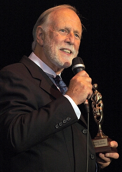 Gary Daverne ONZM receives the 2010 Benny Award from the Variety Artists Club of New Zealand Inc